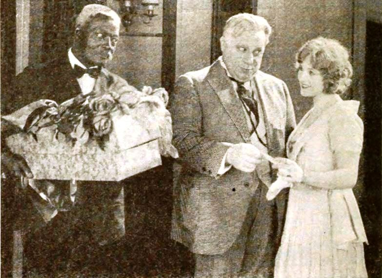 Still from the American silent film Moonlight and Honeysuckle (1921) with an unidentified actor, Willard Louis, and Mary Miles Minter, on page 60 of the October 1921 Photoplay.